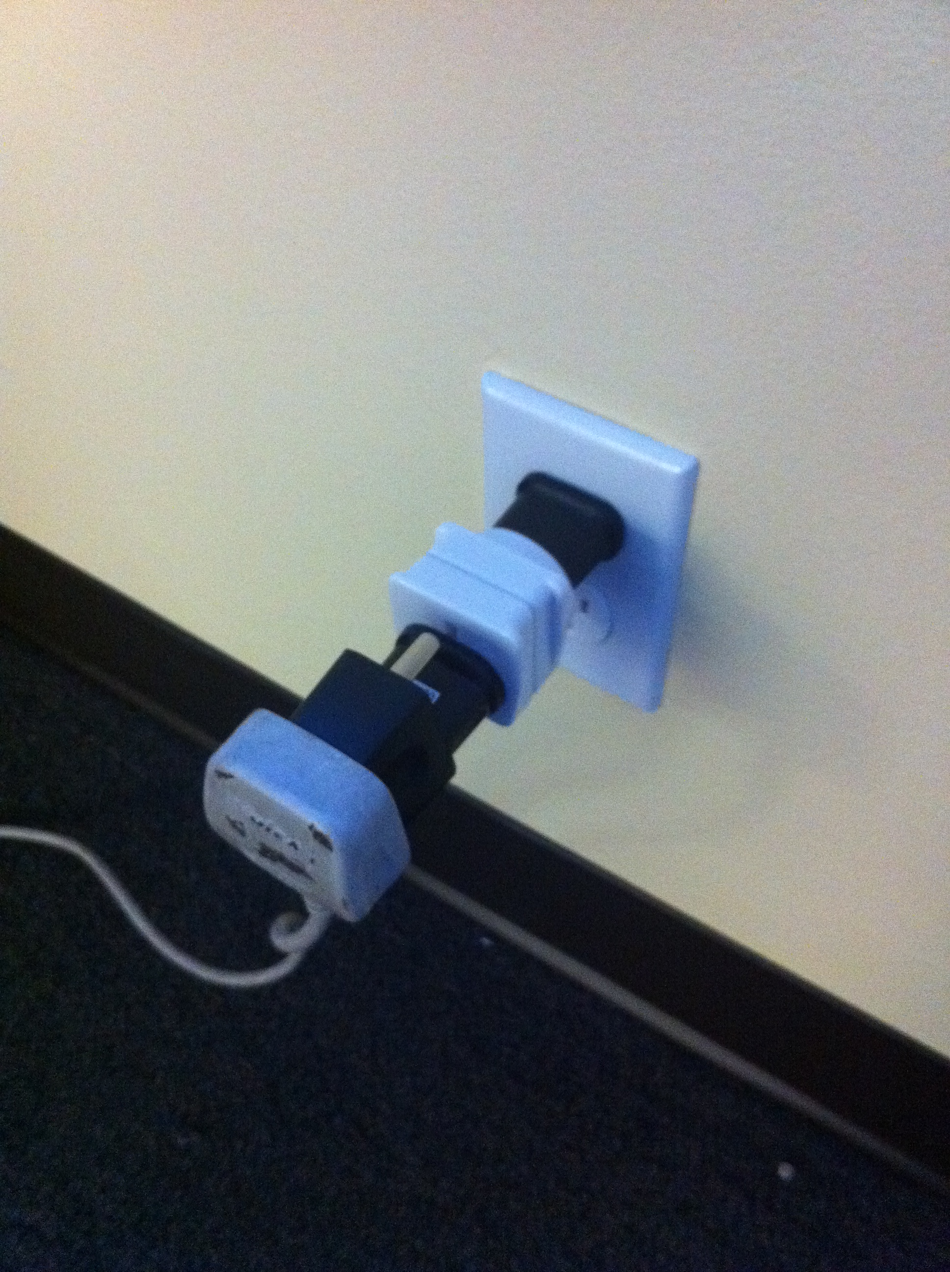 Arun found a way to plug his Indian device into US plug